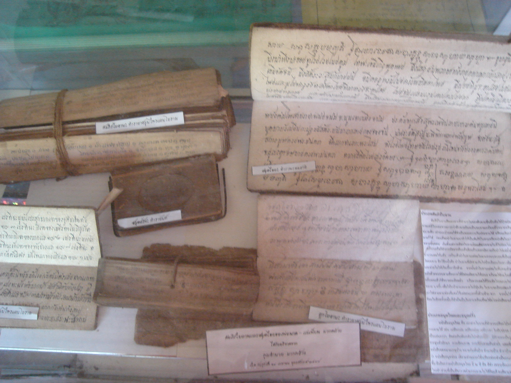 Wat Kungtapao Folk Museum. at Wat Khung Taphao, Ban Khung Taphao, Khung Taphao subdistrict, Mueang Uttaradit, Uttaradit Province, Thailand.) on December 2, 2008.